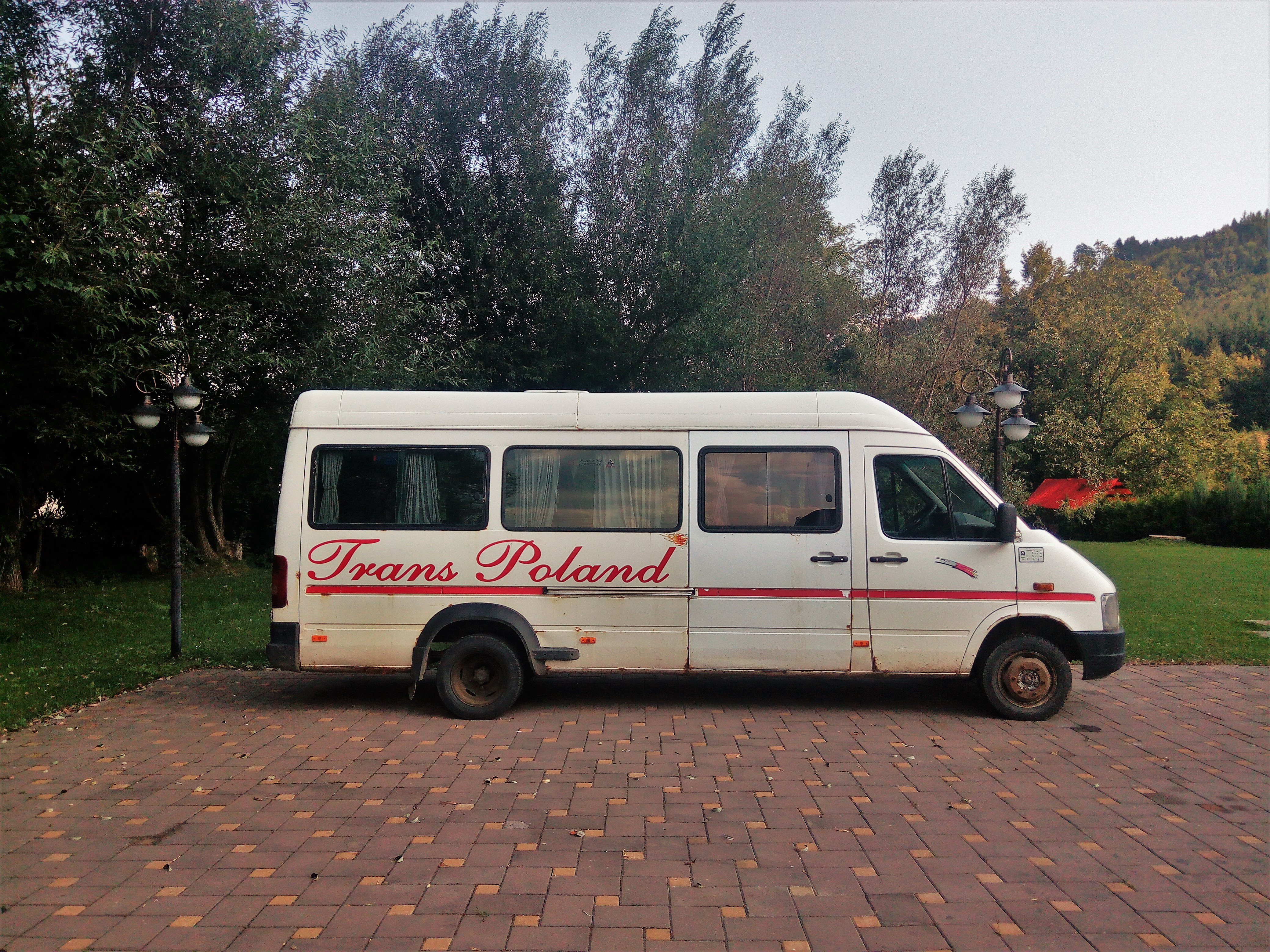 A minibus on the route Suceava – Nowy Sołoniec/Solonețu Nou